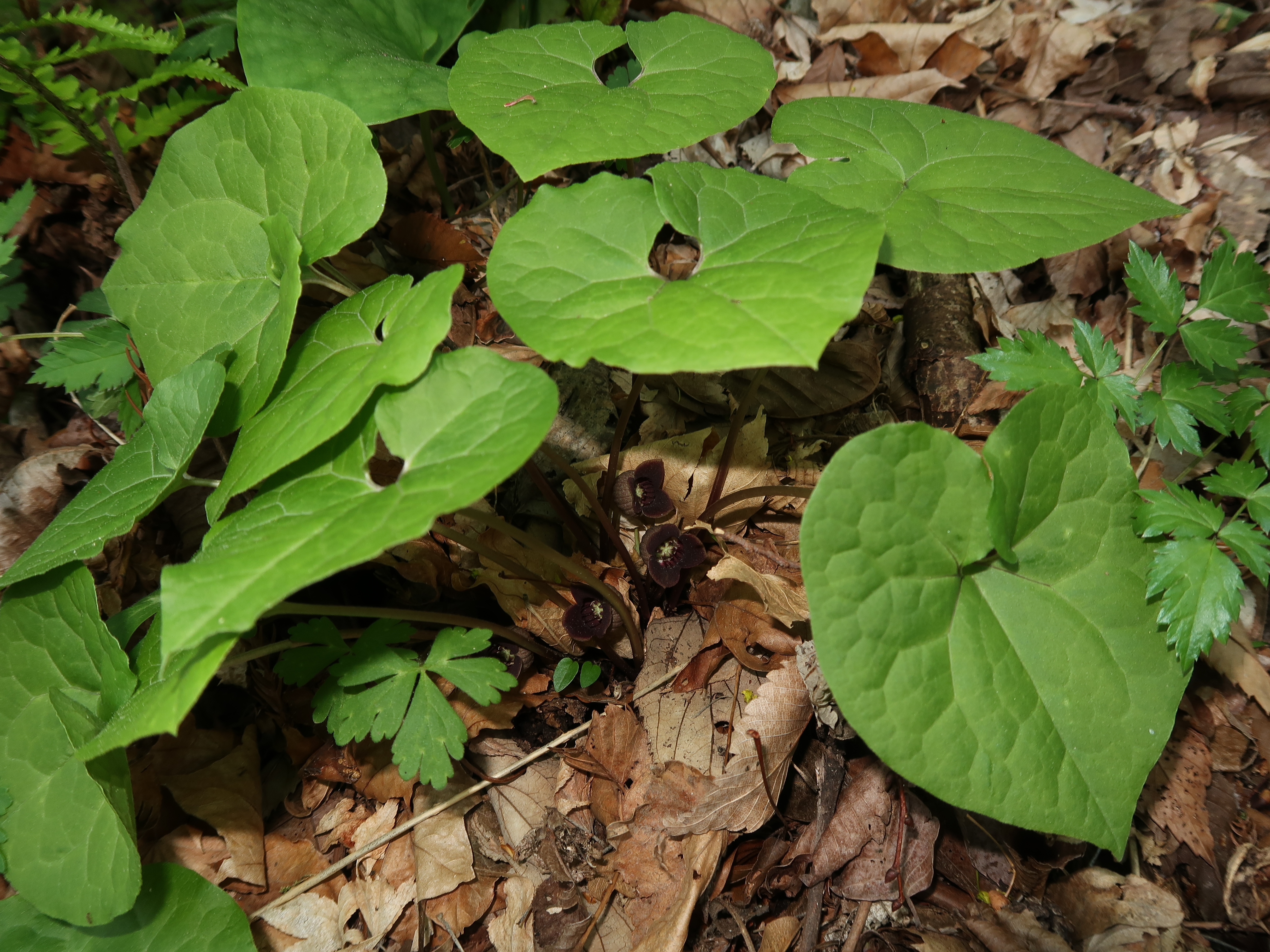 Asarum sieboldii, North area, Tochigi pref., Japan